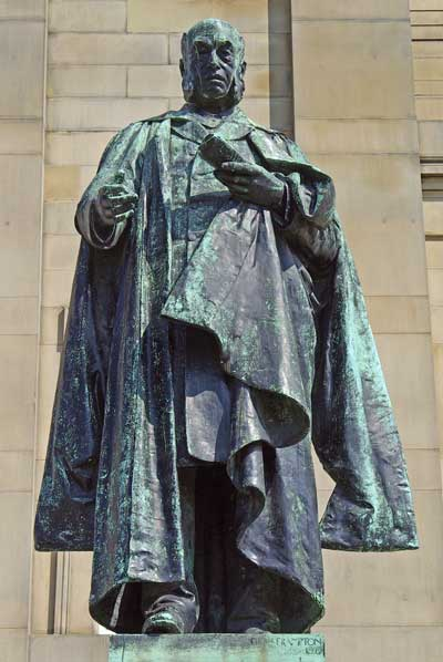 Statue of William Rathbone in St Johns Gardens Liverpool